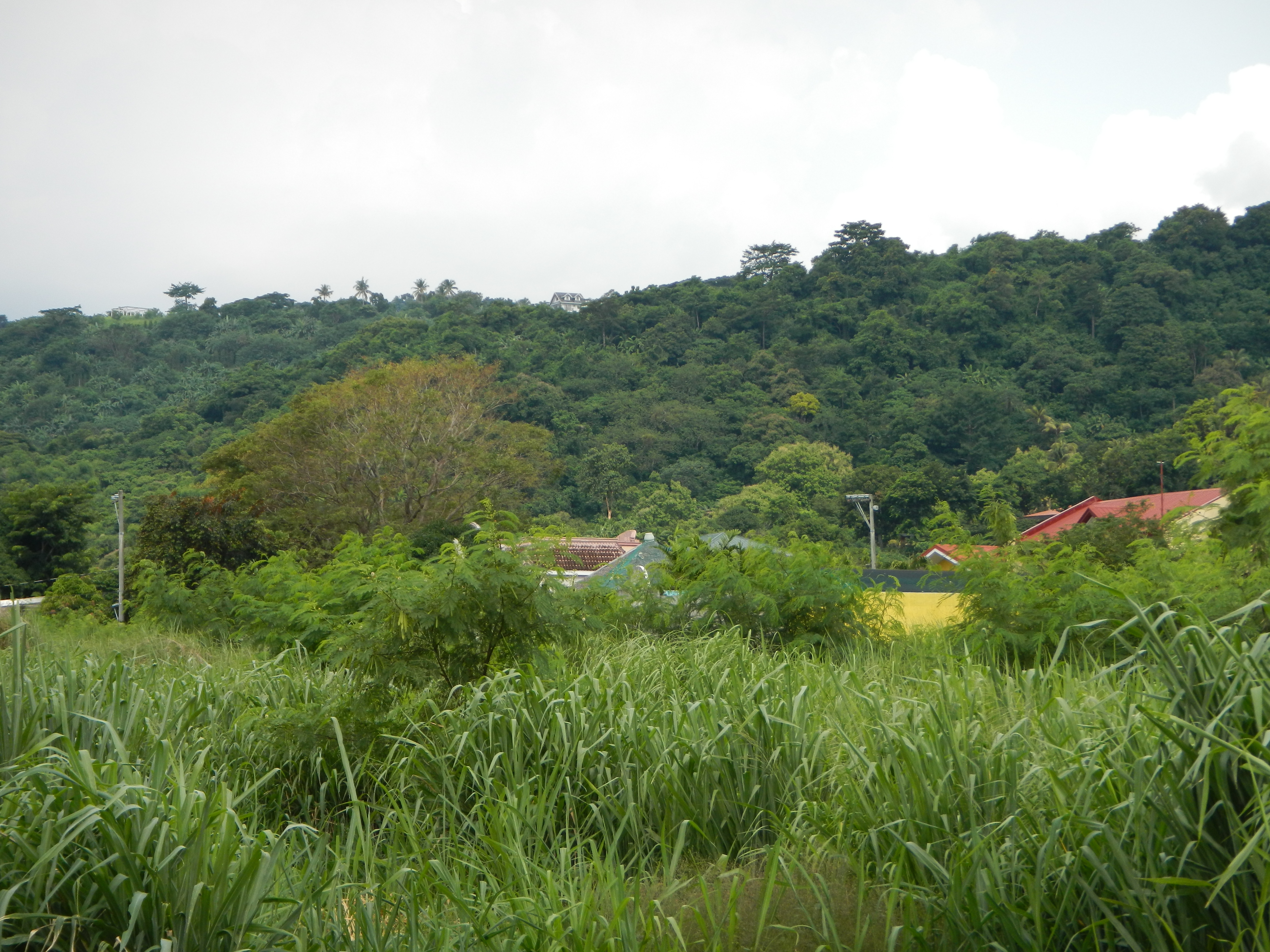 Welcome Arch of Boundary Barangays of -- Los Baños, Laguna[1] & Calamba City[2] Calamba-Sta. Cruz-Famy Junction Road Laguna 2nd Ld Koo57+660-K0059+290 Los Baños Sectionrom Calamba to Los Baños: A Lifetime’s Journey